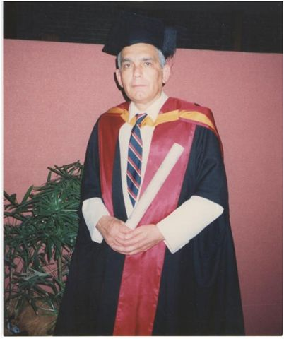 Capt Ariel receiving Dr status